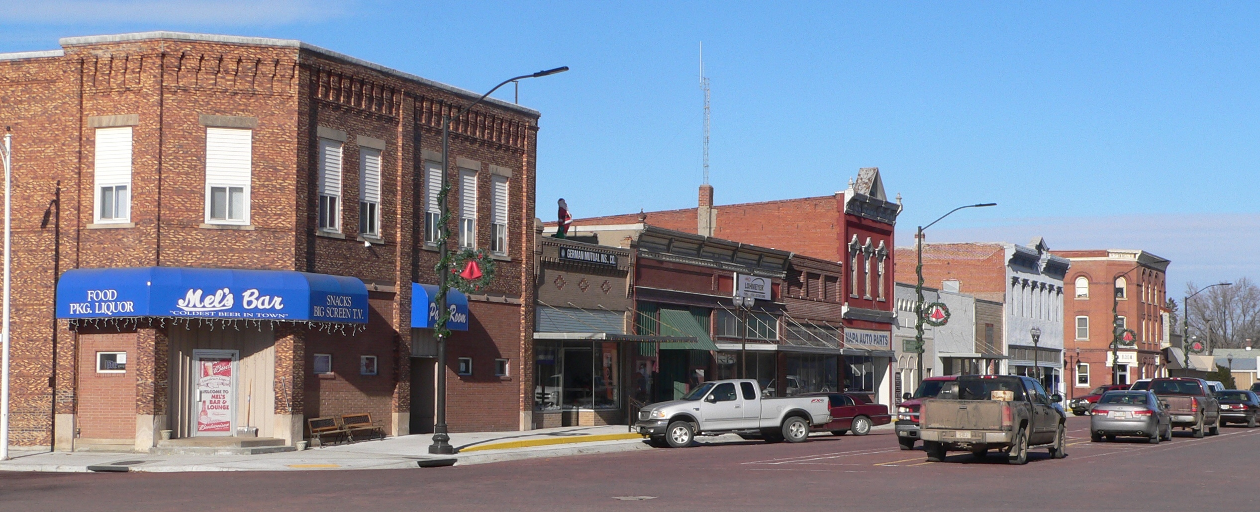 Downtown Scribner, Nebraska: Main Street, looking northwest.